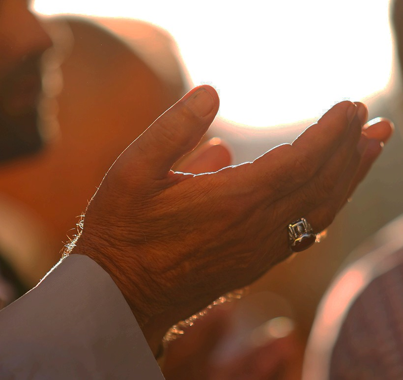 Cropped the original file to use it in wiki templates